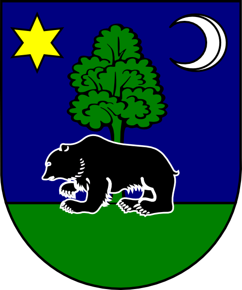 Coat of arms (shield only) of Alexander / Sándor cardinal Rudnay, bishop of Alba Iulia, Romania (1816 - 1819), archbishop of Esztergom, Hungary (1819 - 1831), identical with Rudnay, Diviacky / Divéky family arms